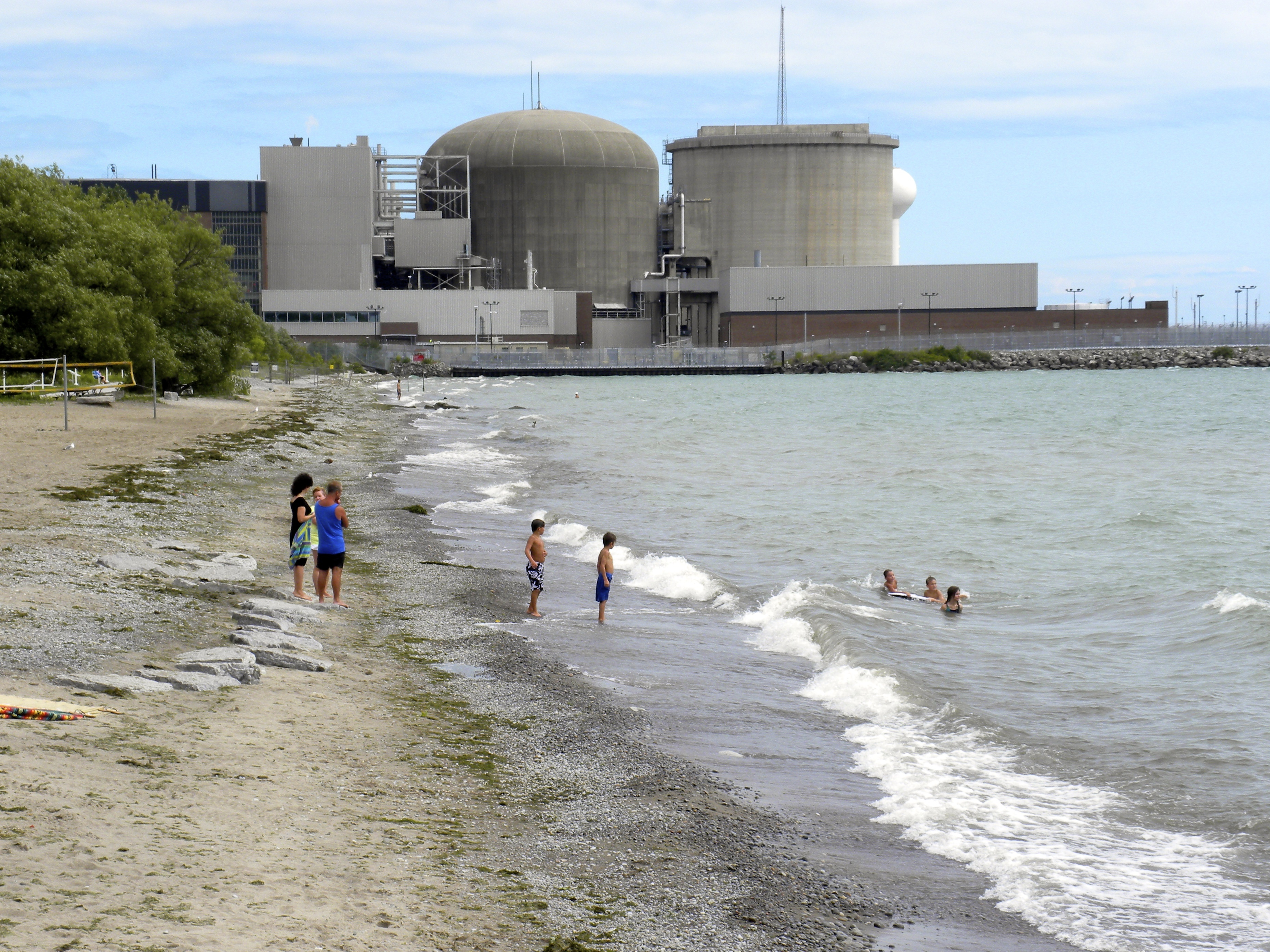 Fancy an atomic swim?